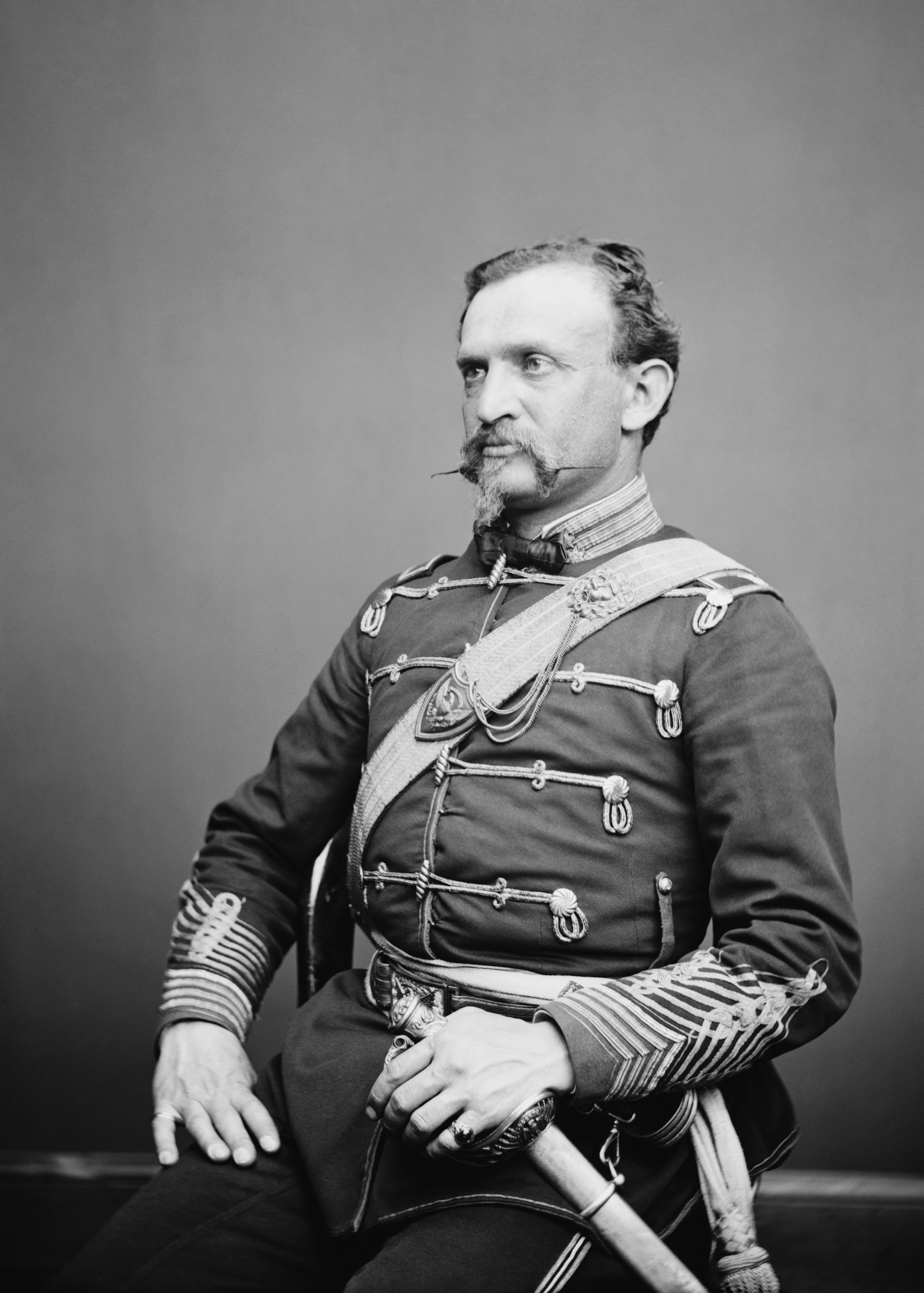 Frederick G. D'Utassy, Colonel of the 39th New York Infantry from 1861 to 1863 during the American Civil War